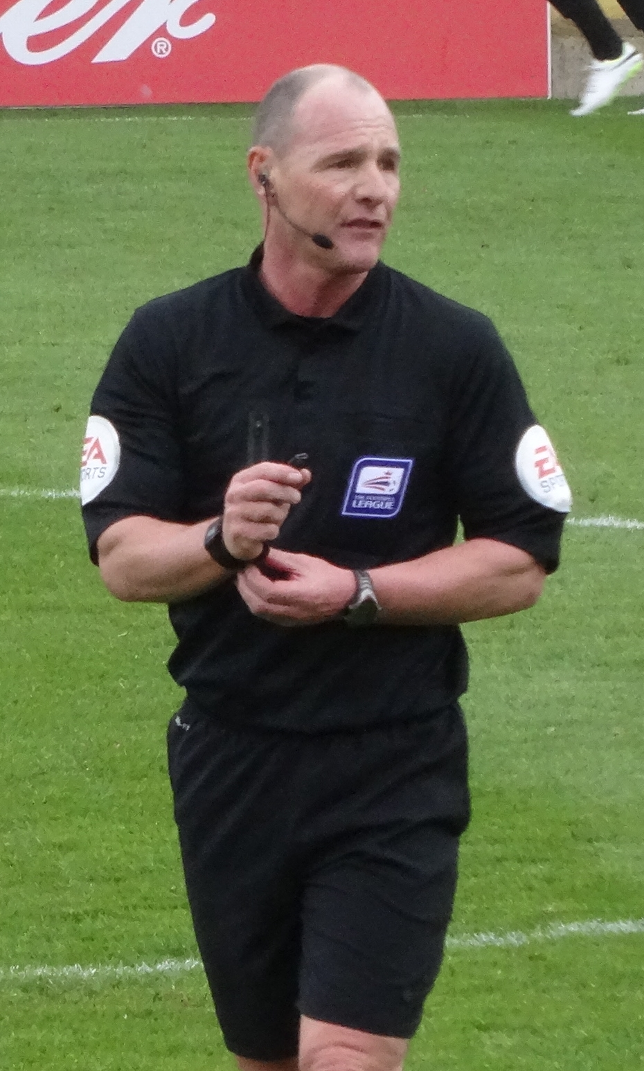 Scott Duncan refereeing a match between York City and Accrington Stanley at Bootham Crescent, York on 12 April 2014